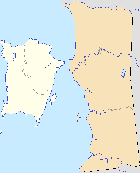 Location map of the city of George Town in Penang Geographic limits of the map: N: 5.5859° N S: 5.1224° N W: 100.1720° E E: 100.5510° E